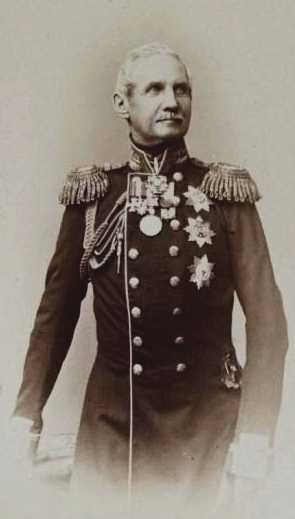 Petr Kleinmihel